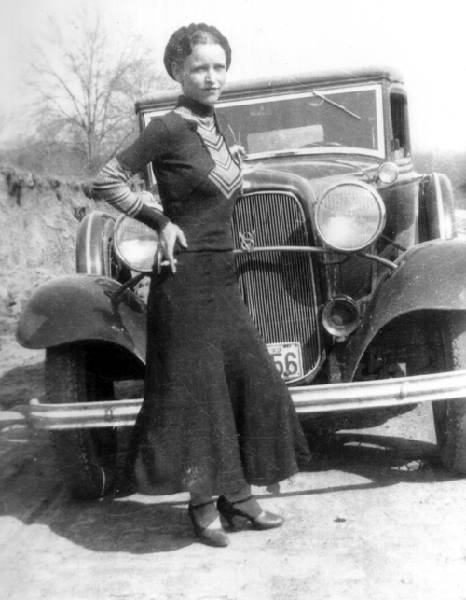 Bonnie Parker from Bonnie and Clyde standing in front of a Ford Model 18 (aka Ford V-8).